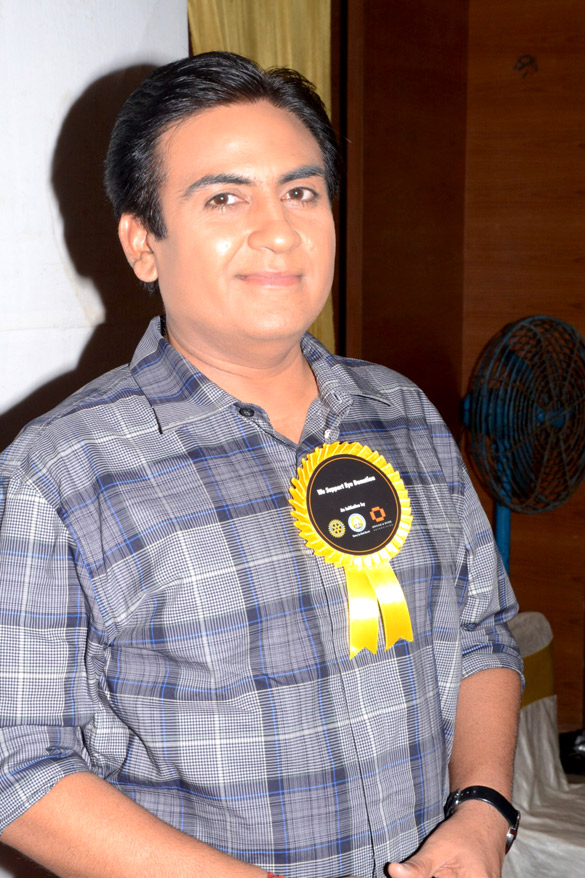 Dilip Joshi Blind awarness programme